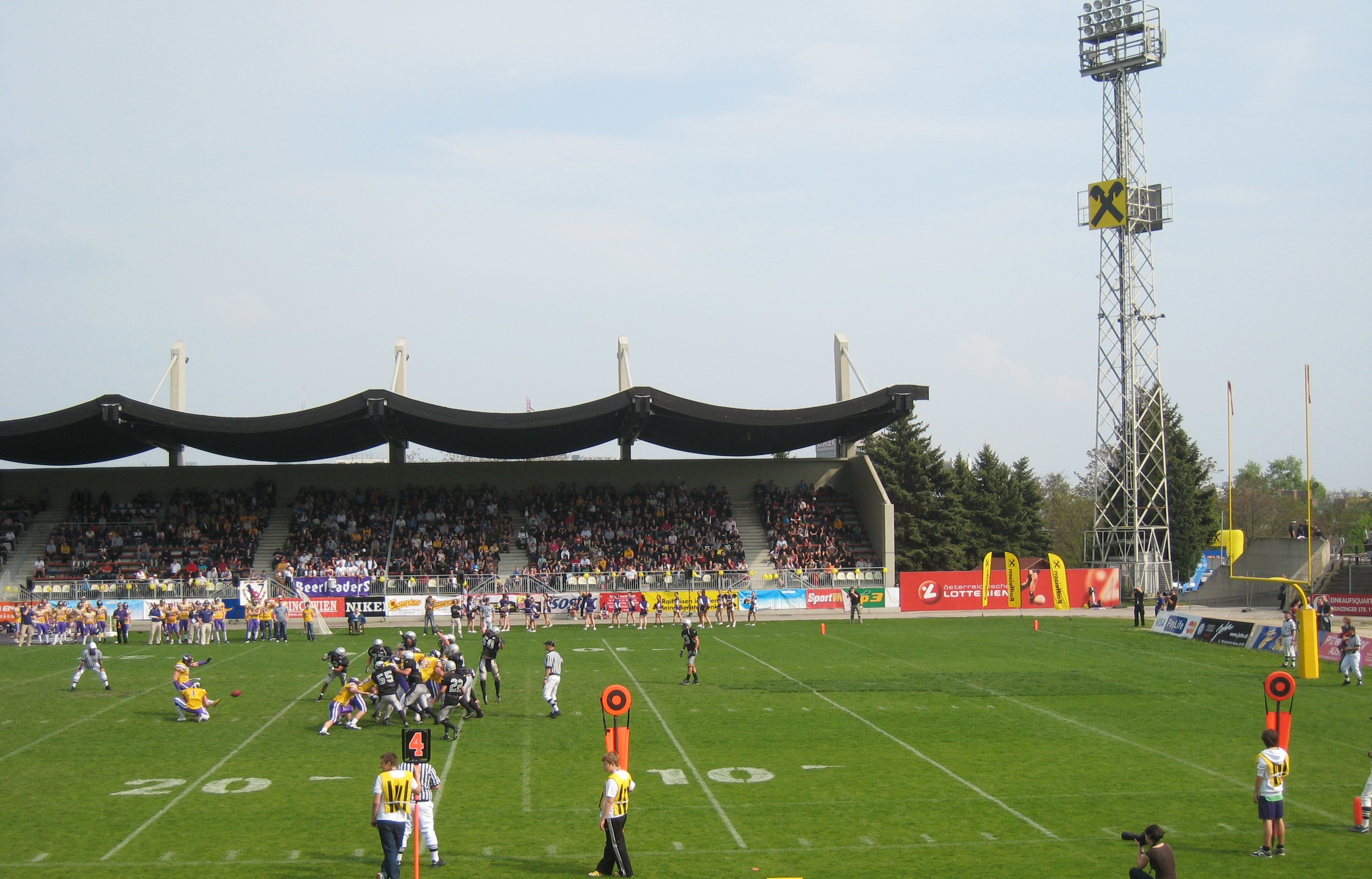 European Football League group stage match Raiffeisen Vikings Vienna vs. Badalona Dracs (24:0), @ Hohe Warte Stadium Vienna Field goal attempt by Peter Kramberger, Vikings